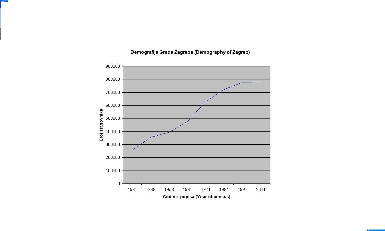 Demography of Zagreb city ,based on Školski atlas, Alpha, Zagreb 2007., ISBN:978-953-168-254-1;page 73